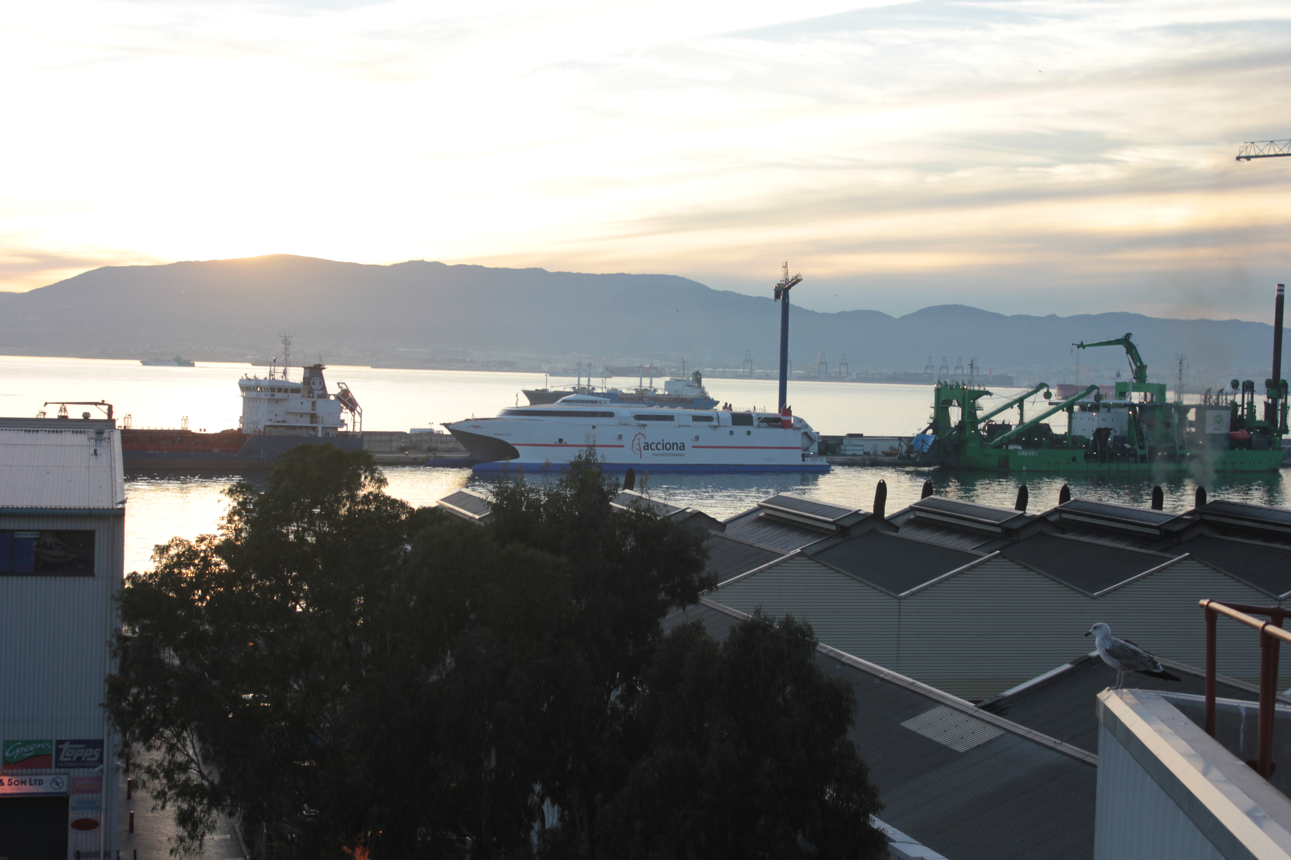 A ferry in Gibraltar Harbour